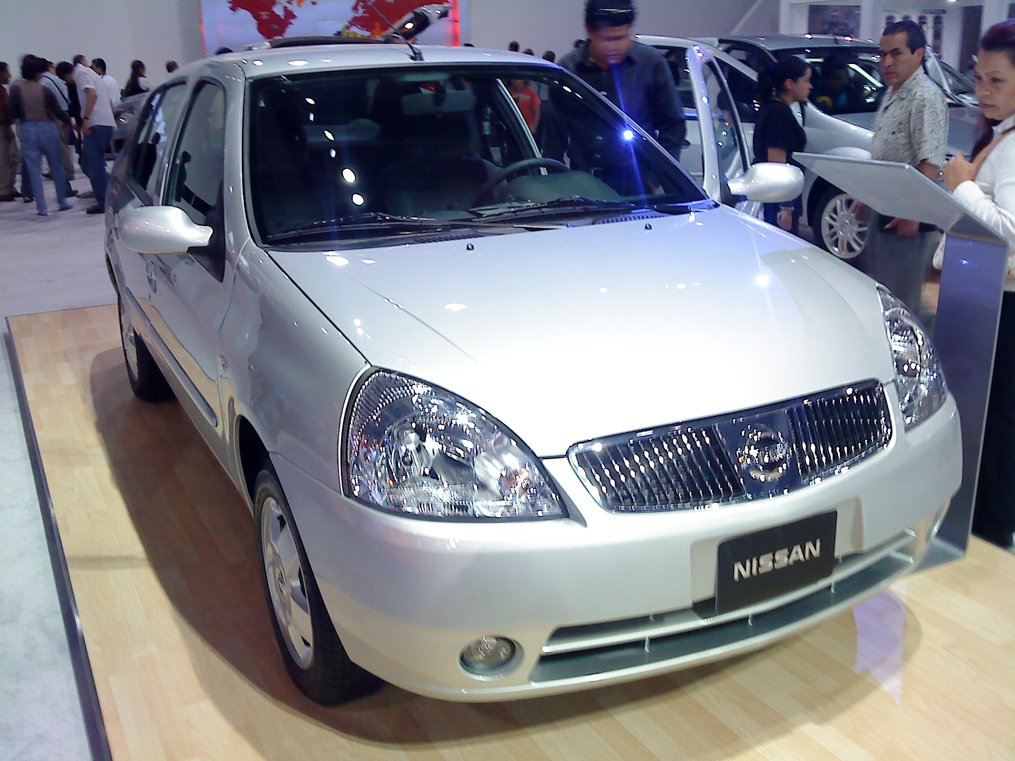 Nissan Platina with custom grille at the 2008 SIAM.